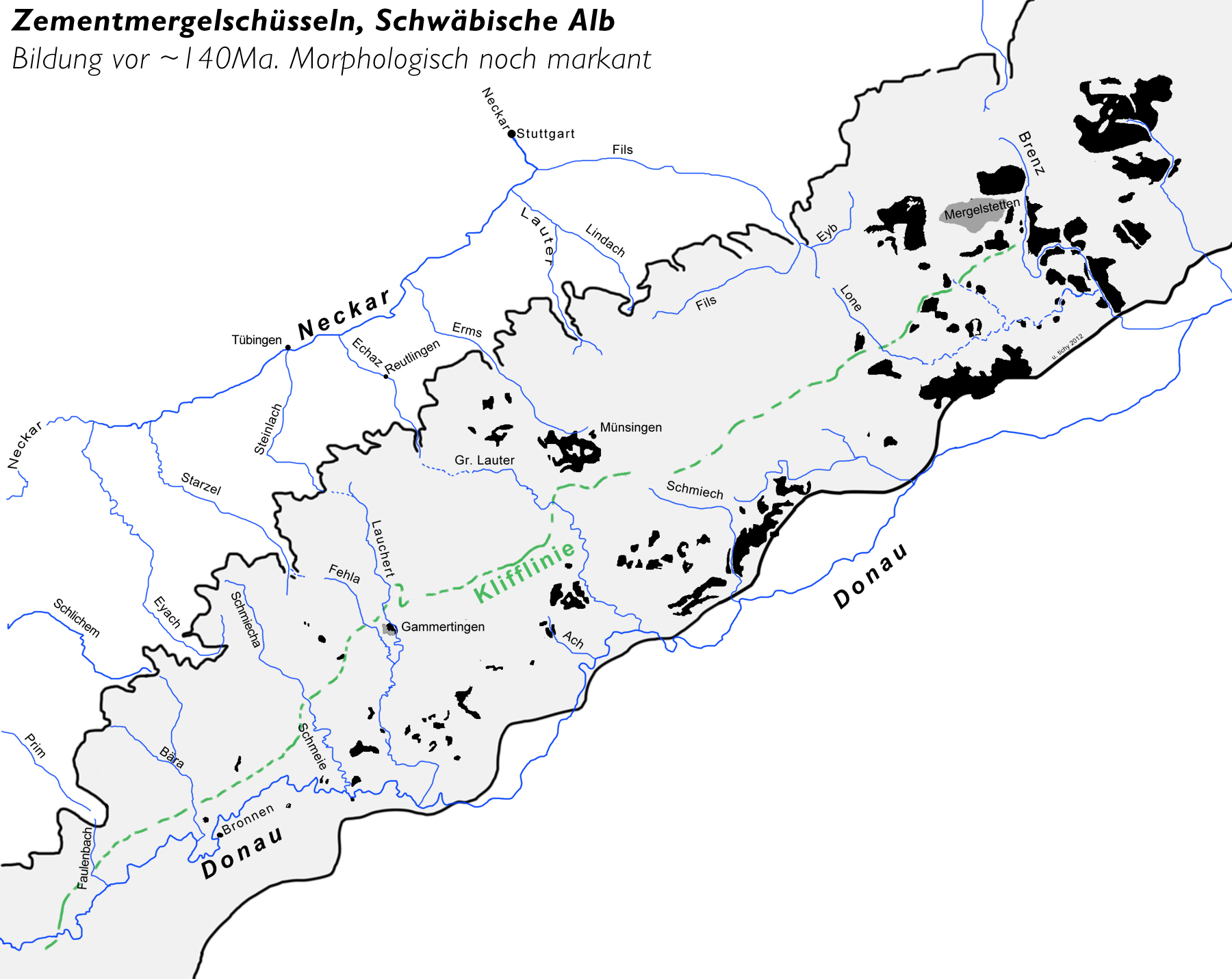 Zementmergelschüsseln (pl.), (sedimentary basins originally filled with marl). Marine calcereous detritus were subject to compaction and bedding. These formations are typical for the Late Jurassic of the Swabian Jura. The basins today are more or less eroded empty. Slower erosion of the harder, not layered, reefal mounds made the basins morphologically significant.